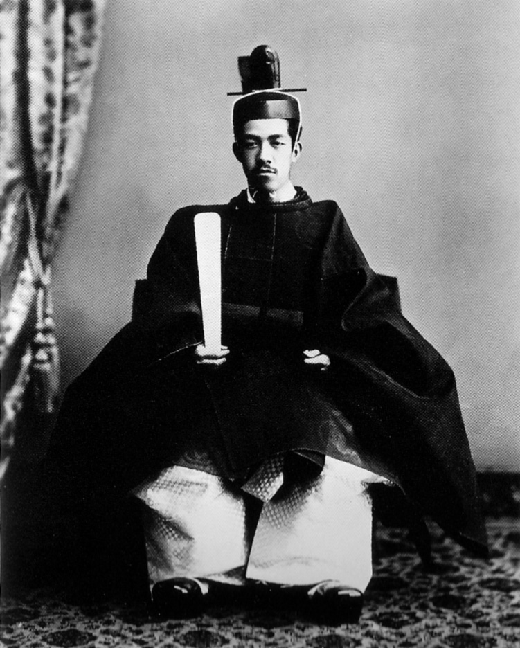 明治33年（1900年）、結婚の儀に臨む皇太子嘉仁親王(Crown Prince Yoshihito/Taishō Emperor)